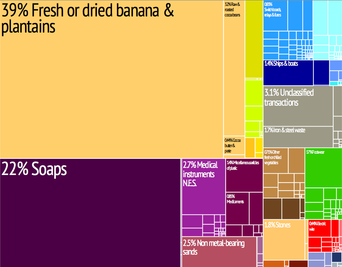 Export Trading Treemap. From MIT/Harvard Atlas of Economic Complexity